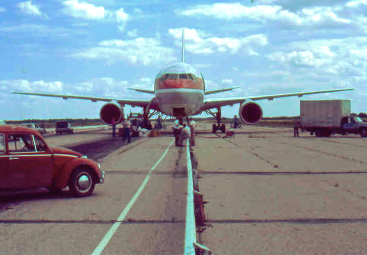 Gimli Glider after landing in Gimli, viewed from front. A red car is in the foreground on left.